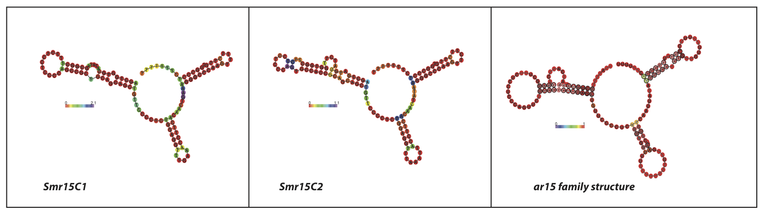 15C tree